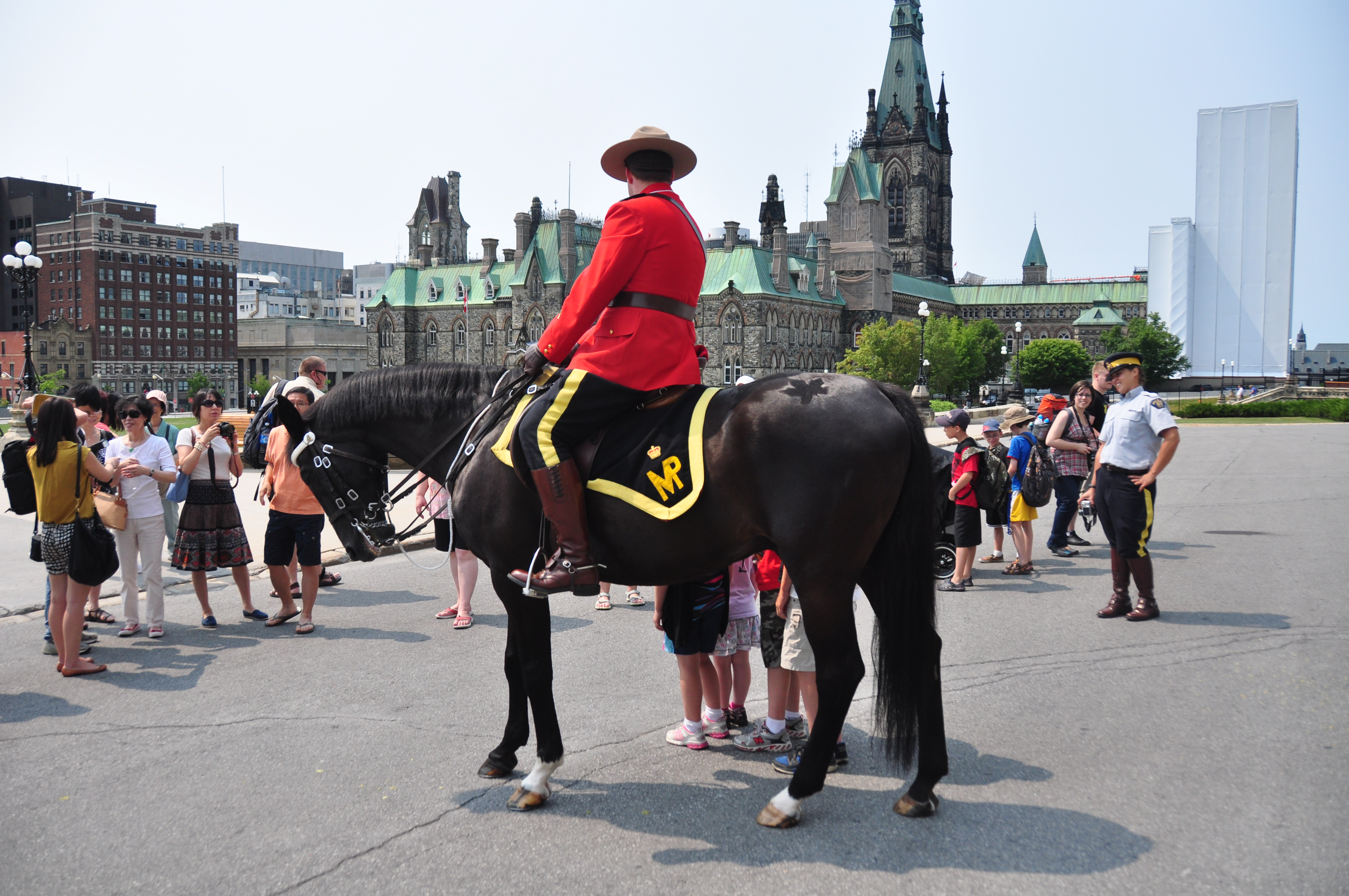 in front of the Parliament in Ottawa